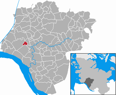 This map shows the area of the Stadt (town) Wilster in the Kreis (district) Steinburg, Schleswig-Holstein, Germany.